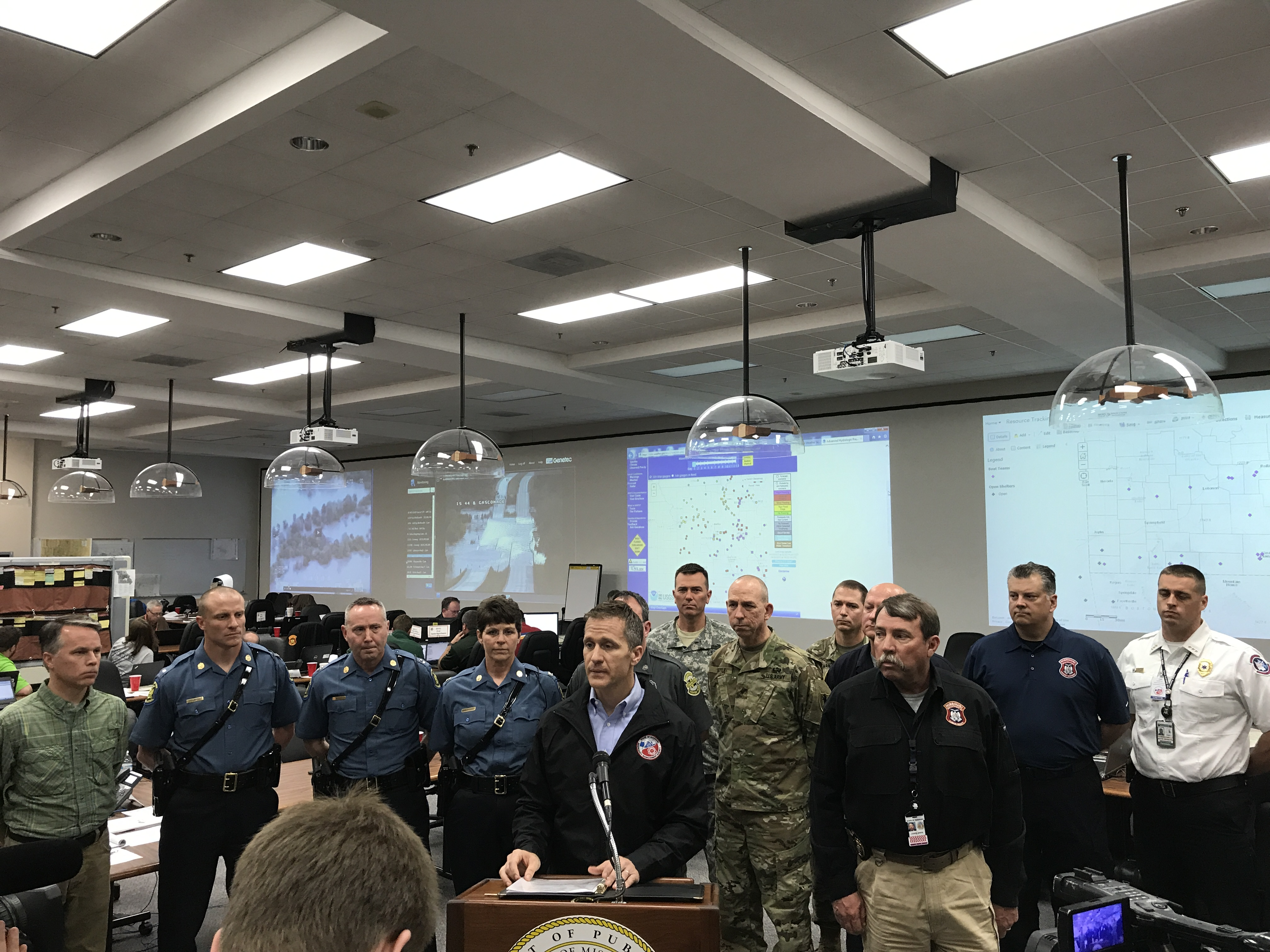 Governor Greitens briefs reporters during Winter Storm Jupiter at the State Emergency Operation Center in January 2017.